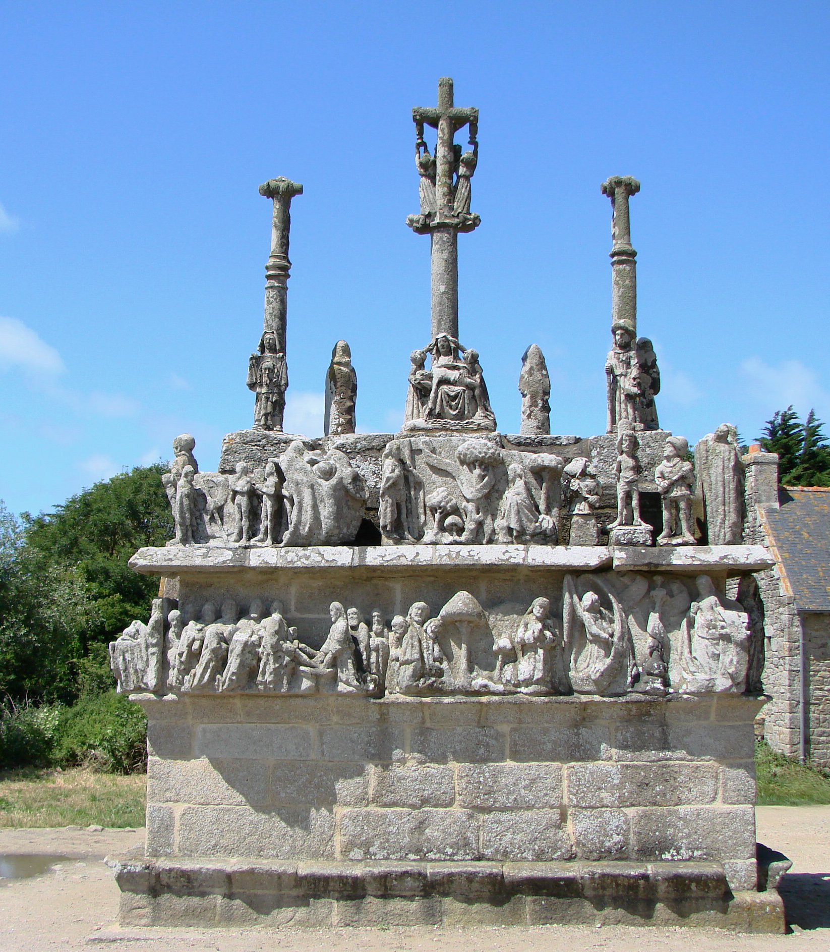 The calvaire of Notre-Dame de Tronoën. 15th century.